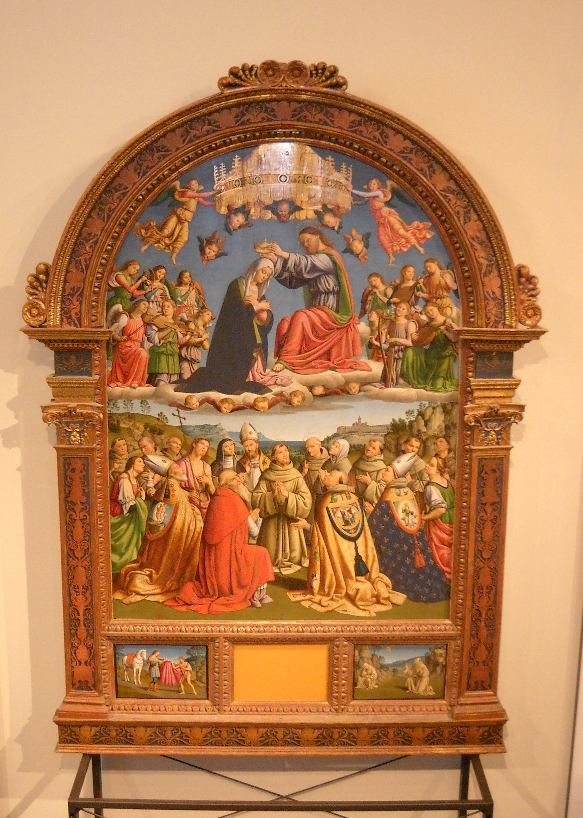 Trevi̠ Pinacoteca Civica del Complesso museale di San Francesco